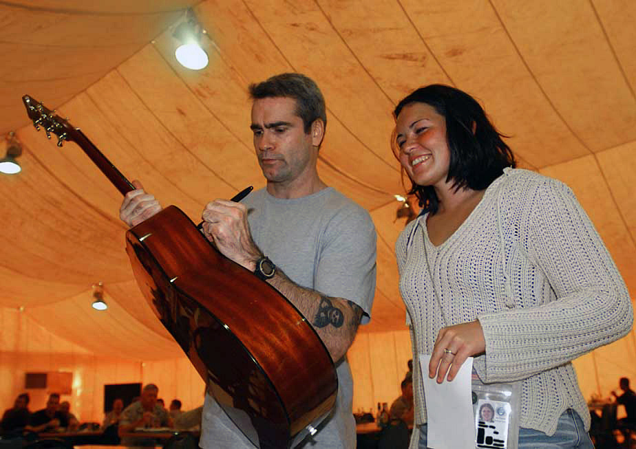 From the Depart of Defense image search website - Defense Visual Information Center. Picture comes up if you search for Henry Rollins ID: DFSD0601876 Service Depicted: Air Force Command Shown: USAFE 031207F6449C002 Henry Rollins, Actor and Musician, signs a guitar at a base dining facility for avid fan US Air Force (USAF) Airman First Class (A1C) Catherine Shultz, Civil Engineer Readiness Troop, 379th Expeditionary Civil Engineering Squadron (ECES). Mr. Rollins is one of the many celebrities donating their time and effort to the United Services Organization (USO)/Armed Forces Entertainment tour in support of deployed US military troops. Category:United States Air Force images